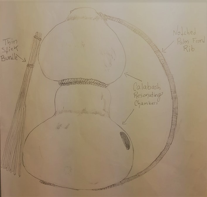 A sketch of an Ekola, a traditional friction idiophone instrument of the ovashengi Third Gender of the Ovambo People of Namibia, drawn from an instrument in the collection of the National Museum in Helsinki, Finland.